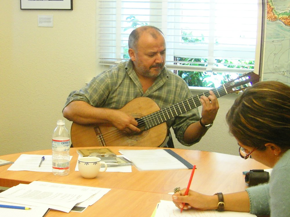 Horacio Salinas playing in a graduate seminar at UC Berkeley.